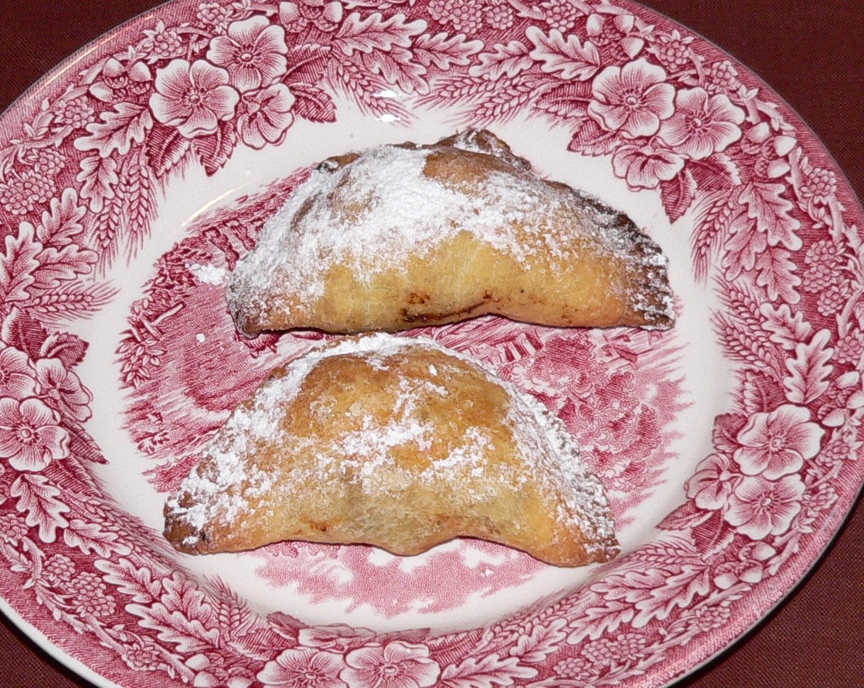 Description: Empanadas Subject: Peruvian cuisine Photographer: © Manuel González Olaechea y Franco Shot date : October, 23rd , 2005